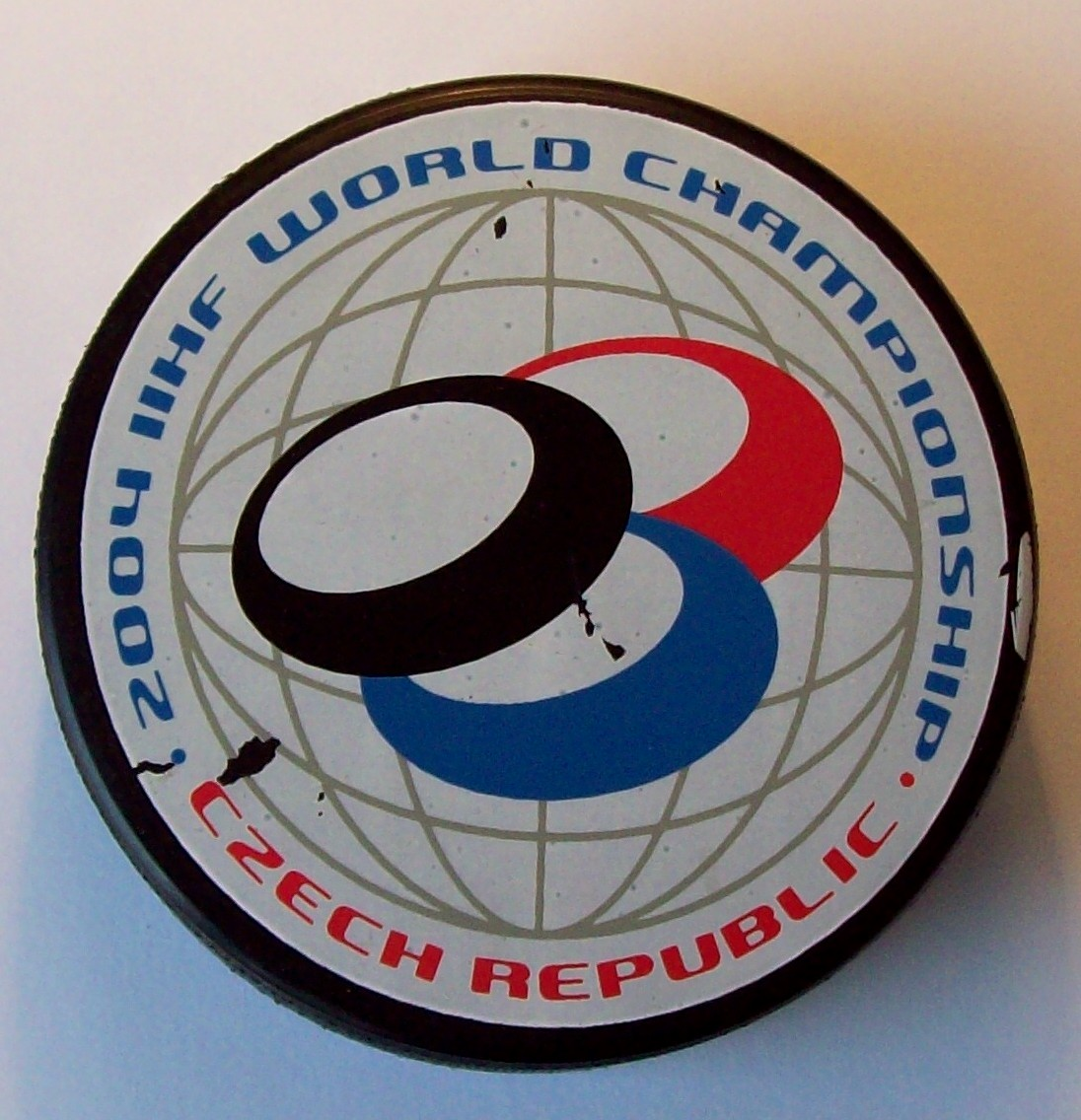 Official hockey puck on the 2004 Men's World Ice Hockey Championships played in Prague, Czech Republic.